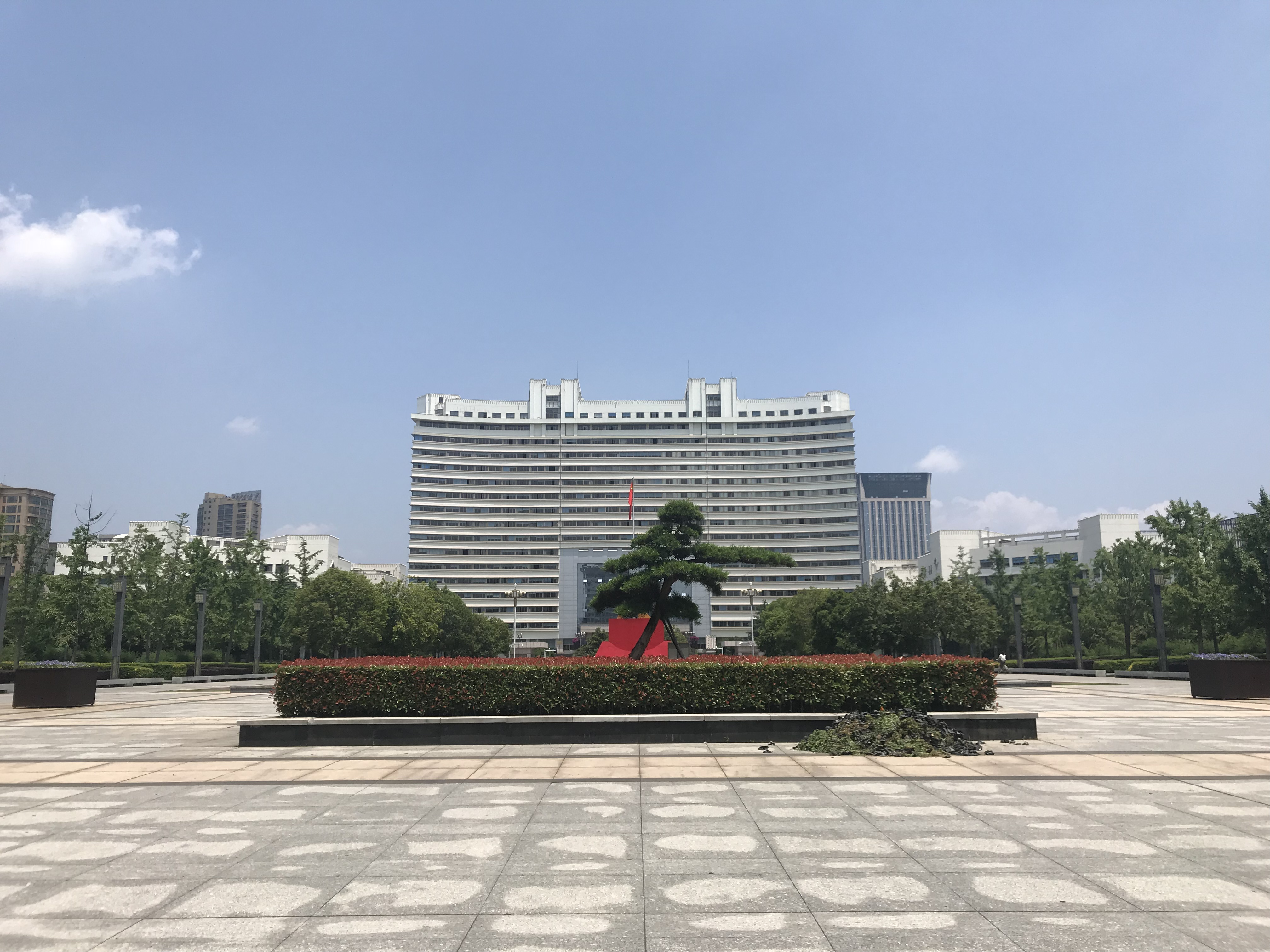 201805 Government of Jinhua